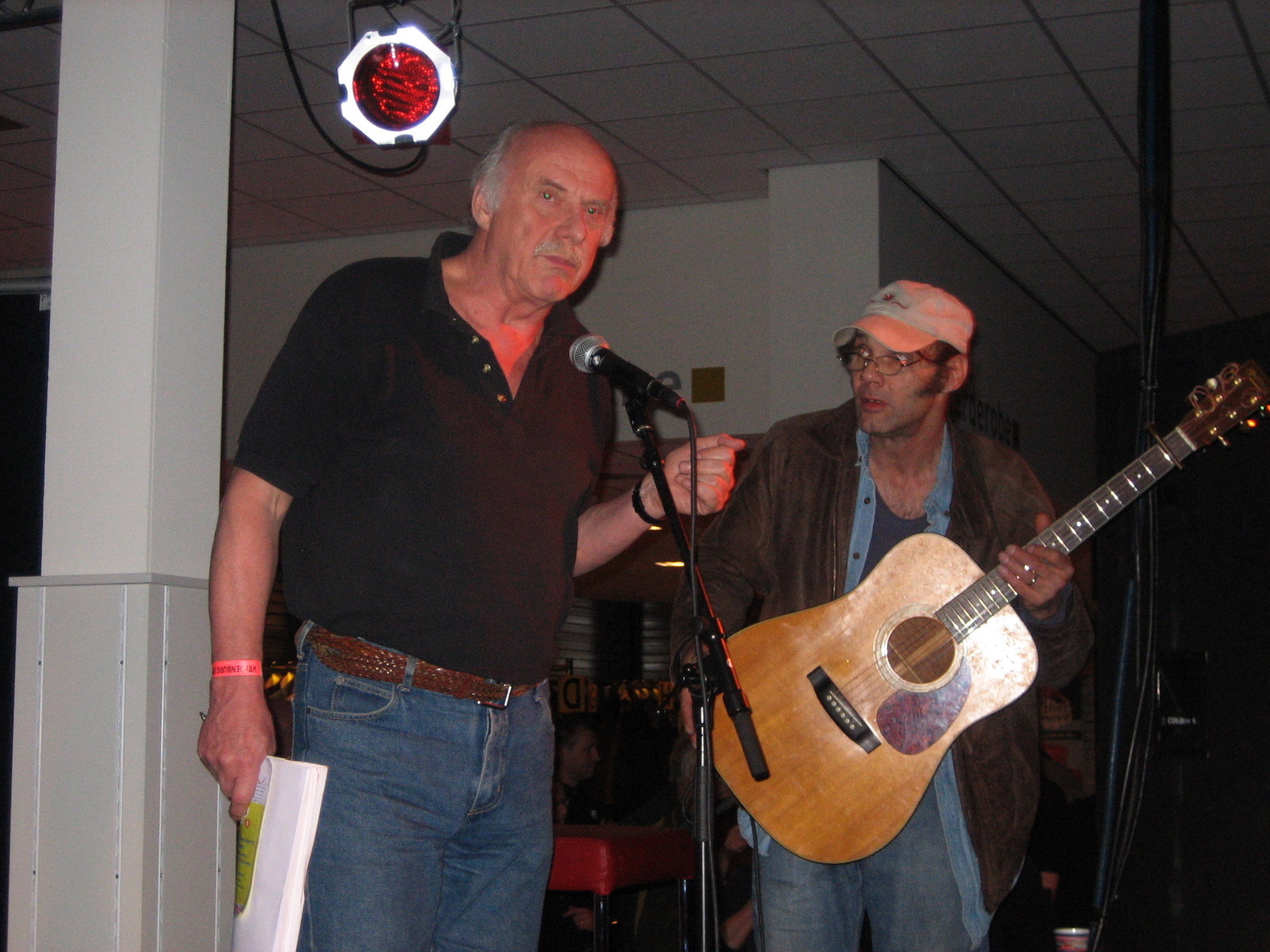 Jan Donkers announces Malcolm Holcombe @ Blue Highways Festival 19 april 2008 in Utrecht, Netherlands